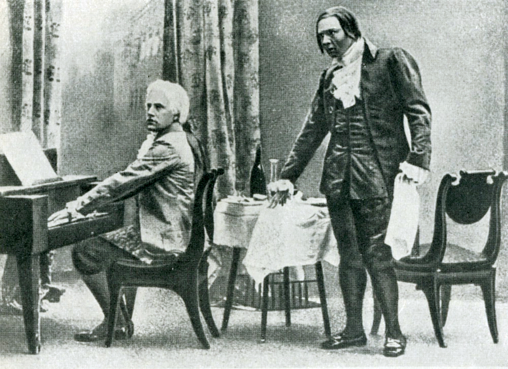 Russian bass, Feodor Chaliapin (1873 - 1938)